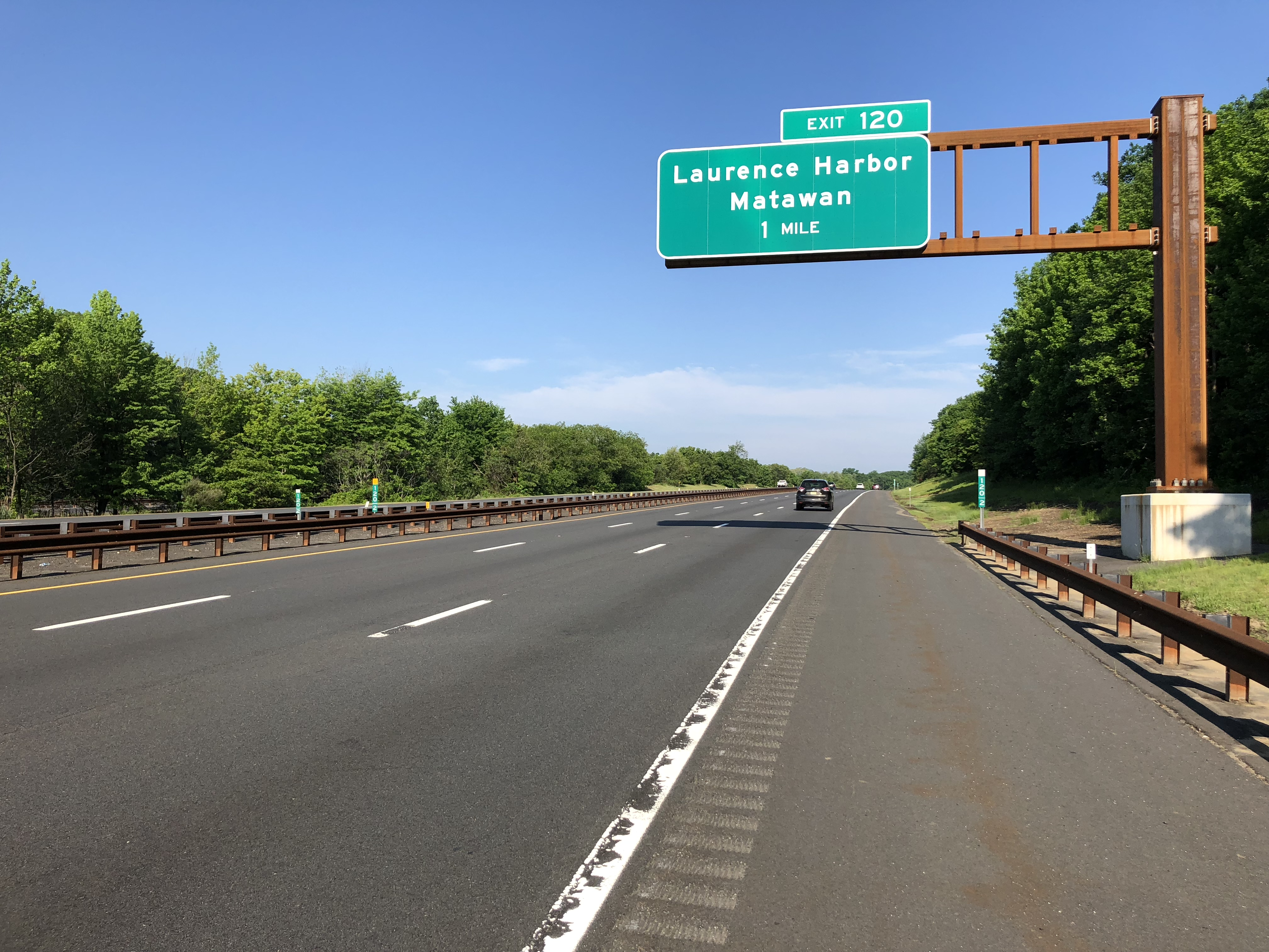 View north along New Jersey State Route 444 (Garden State Parkway) south of Exit 120 (Laurence Harbor, Matawan) on the border of Aberdeen Township and Matawan in Monmouth County, New Jersey